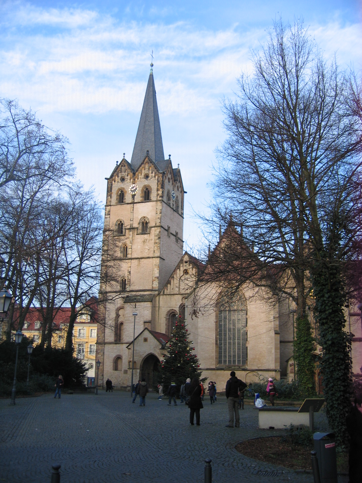 Herford minster in Herford, District of Herford, North Rhine-Westphalia, Germany.